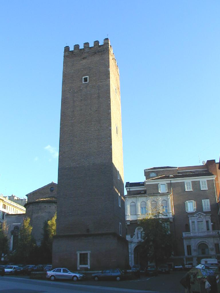 Rome, Capocci Tower in Cavour road. Behind the apse of San Martino ai Monti